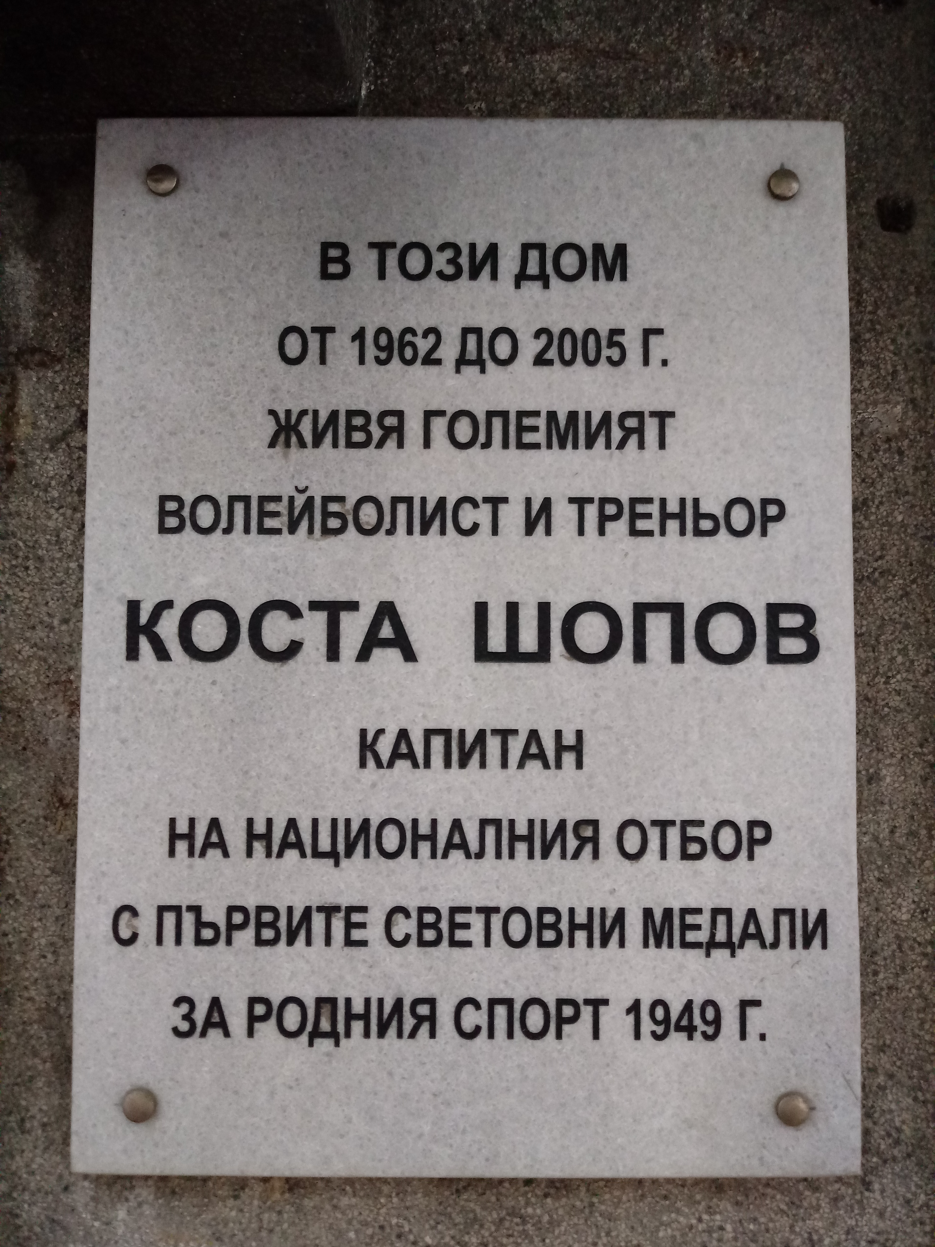 Kostadin Shopov memorial plaque, 55A Alexander Stamboliyski Blvd., Sofia